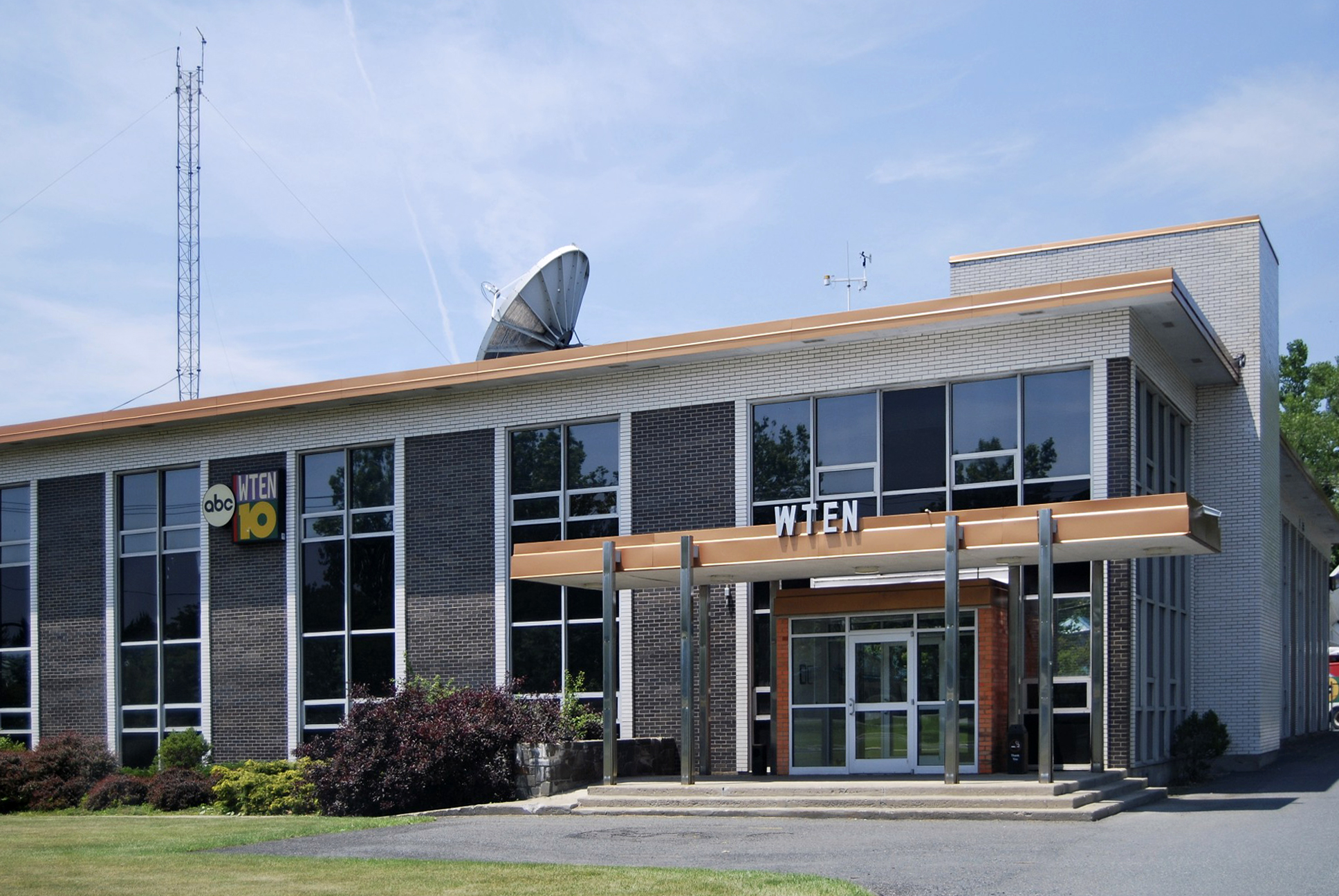 Broadcasting station of WTEN, the ABC affiliate in Albany, New York, United States.